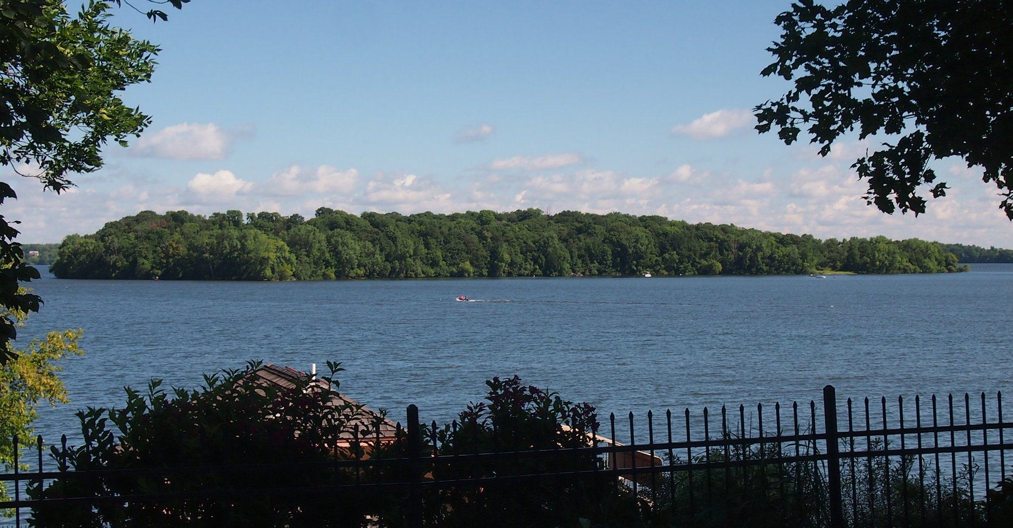 Coney Island of the West in Lake Waconia, viewed from Lake St between Vine and Olive Sts, Waconia, Minnesota, USA.